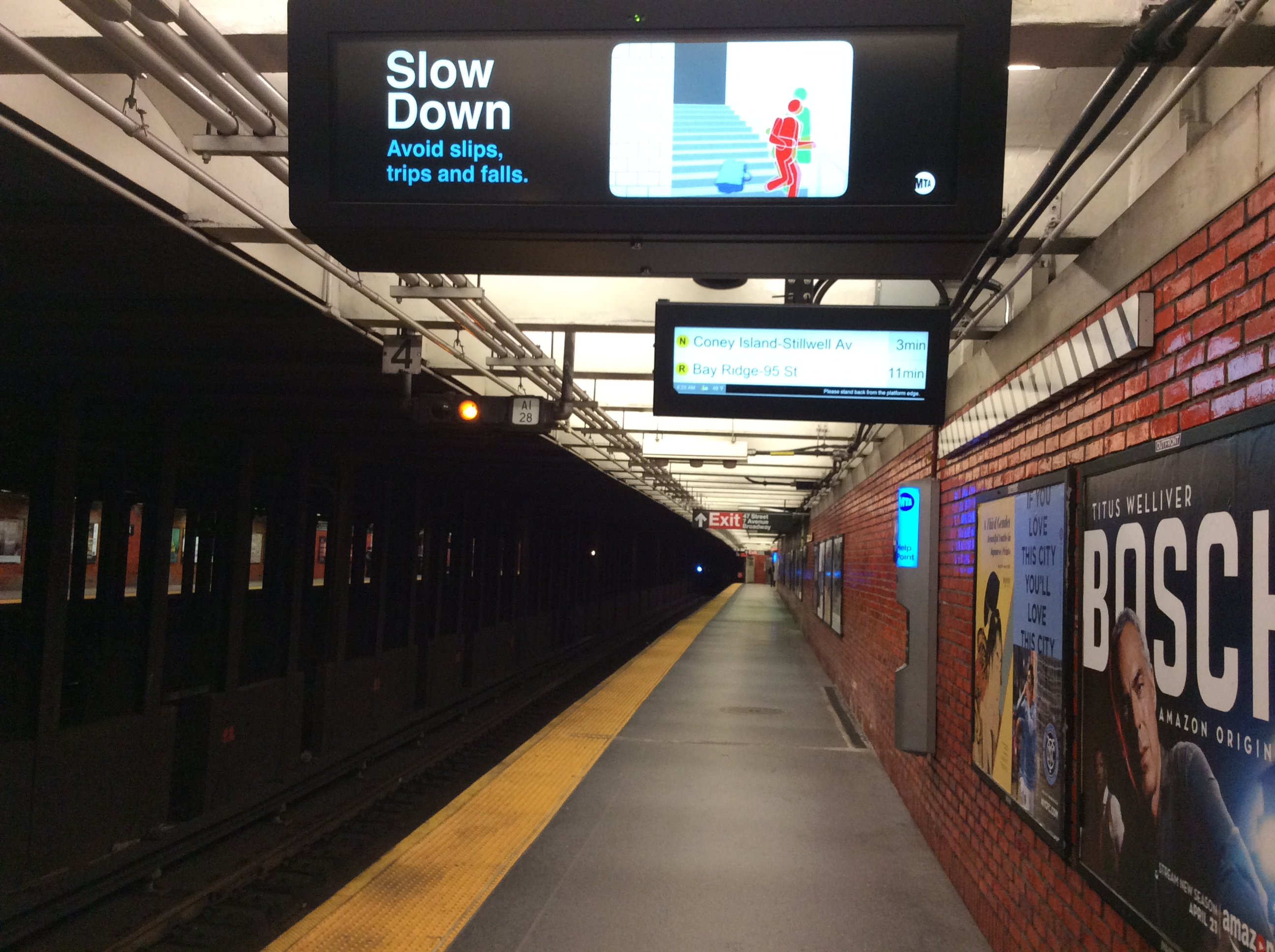 The 49th Street station on the BMT Broadway Line in April 2017